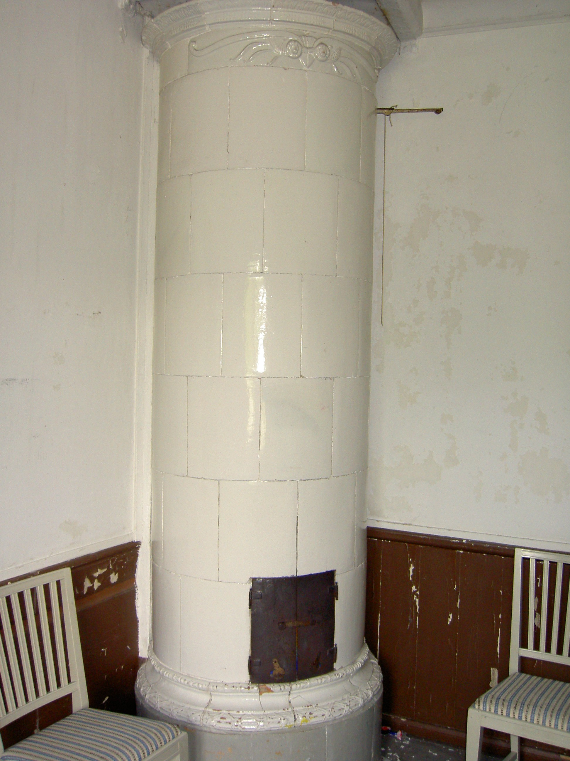 Malingsbo mansion, Smedjebacken municipality, Sweden